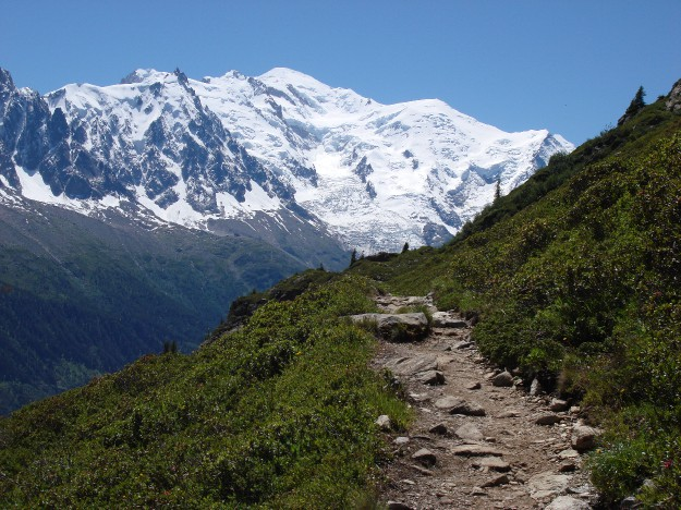 A view of Mont Blanc from the Tour du Mont Blanc, July 13 2007 Tour du Mont Blanc